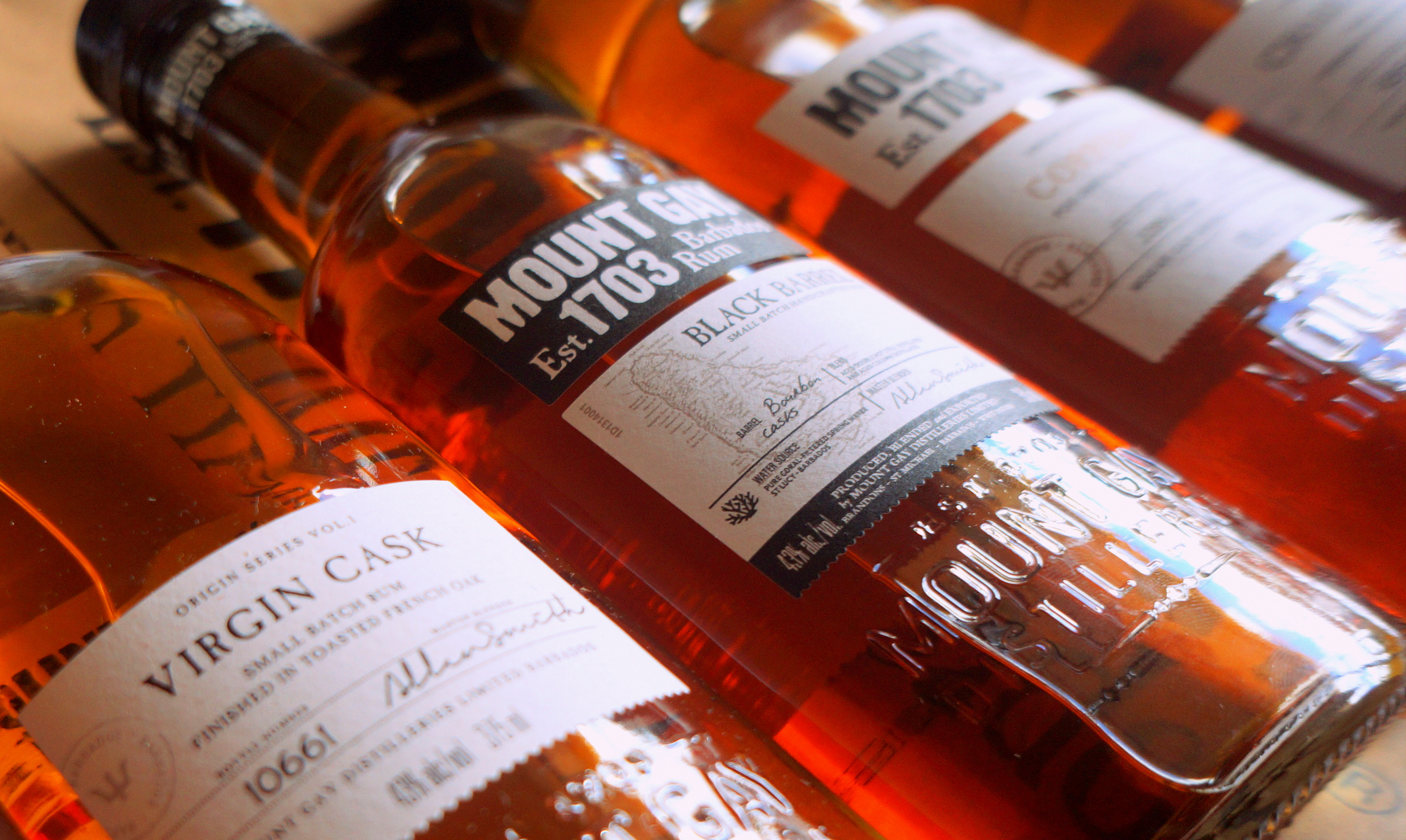 Mount Gay Black Barrel Rum between two limited edition Mount Gay Distilleries products.